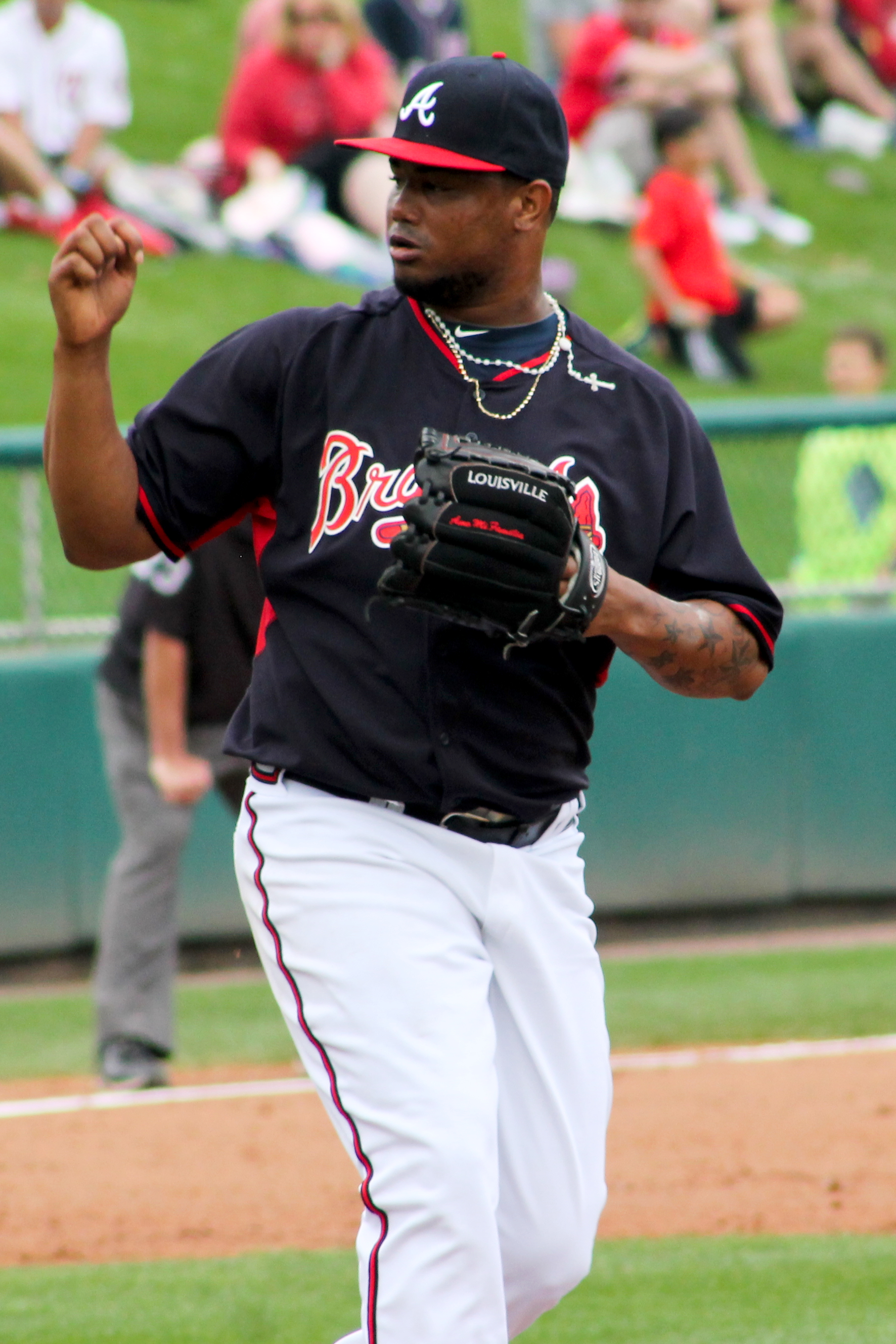 Juan Jaime, a professional baseball pitcher, at spring training in March 2015.